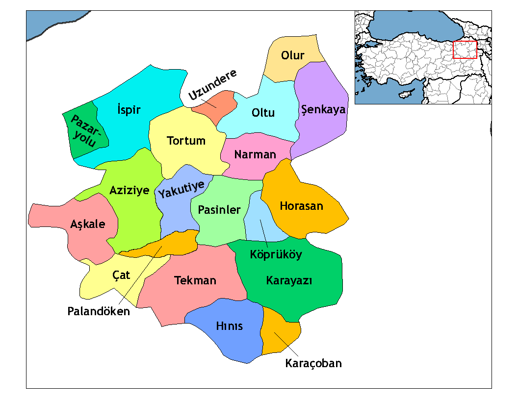 Map of the districts of Erzurum province in Turkey. Created by Rarelibra 19:53, 1 December 2006 (UTC) for public domain use, using MapInfo Professional v8.5 and various mapping resources. Edited by One Homo Sapiens Corrected text where İ,Ş,ı,ğ,or ş occurs in name. Source: [statoids-com]. Increased font size and enhanced color differences among adjacent districts.